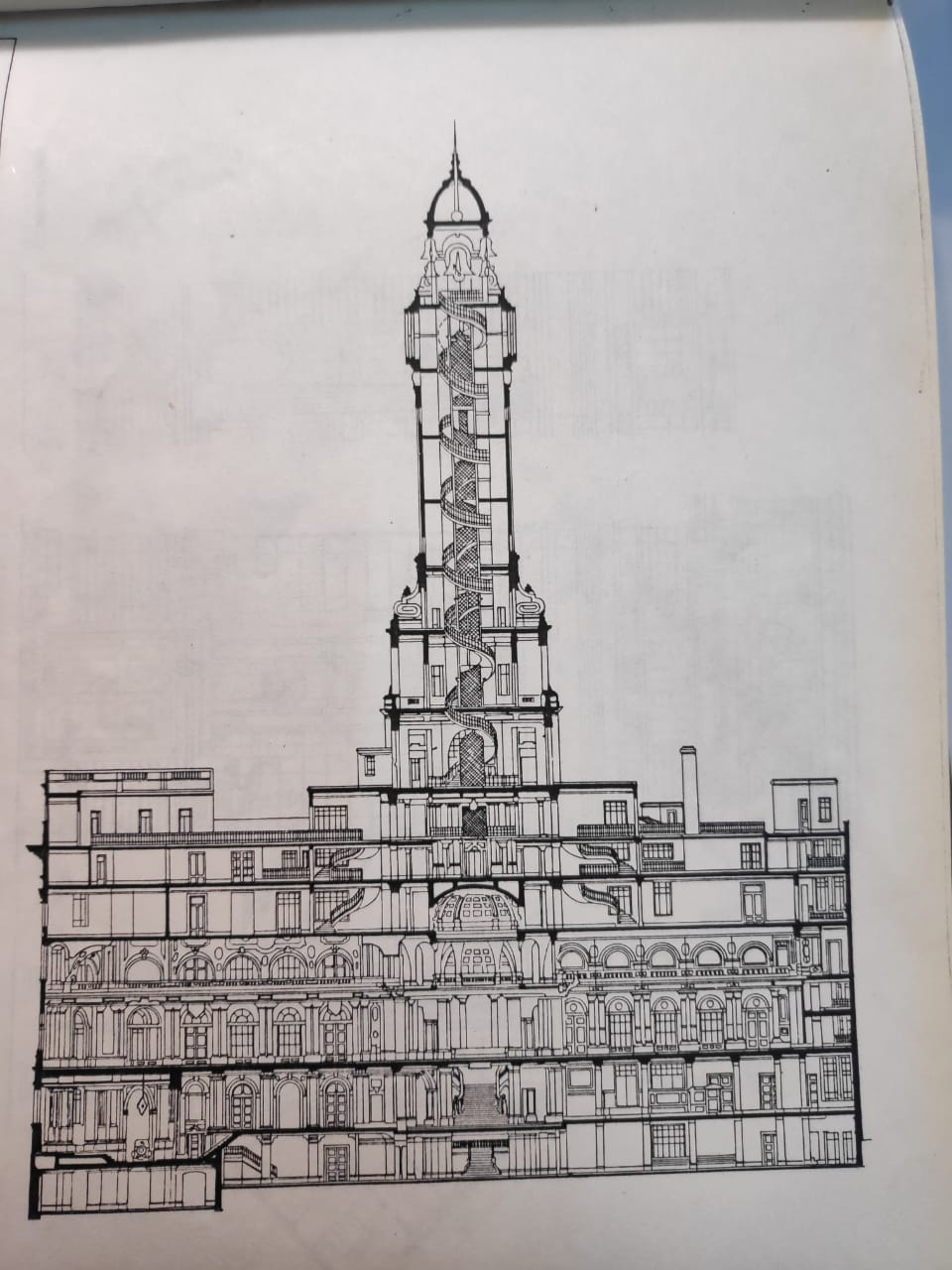 It is a vertical section of the Palace of the Legislature of Buenos Aires, in which its internal distribution is appreciated.